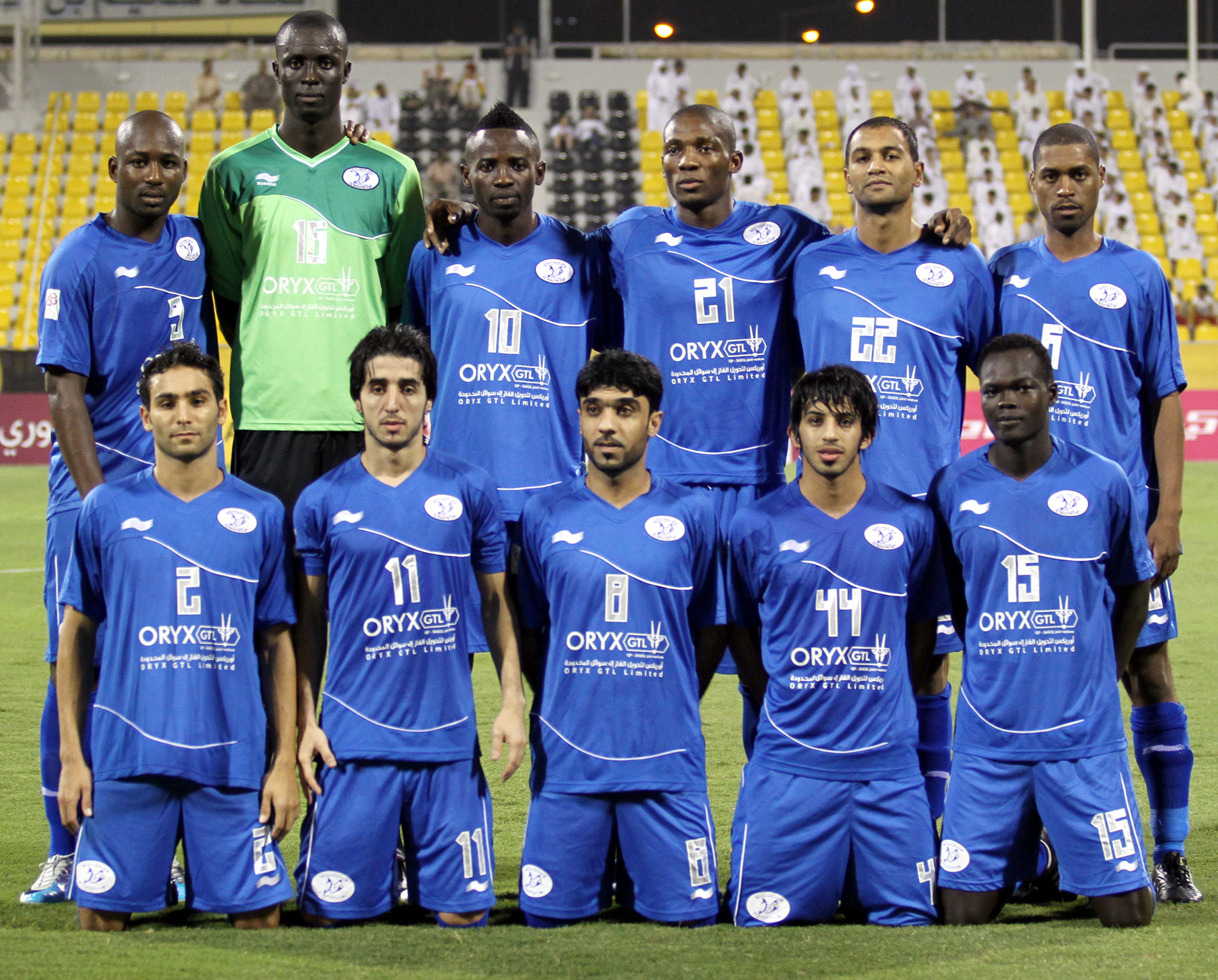 Al Kharaitiyat team members pose for a team photo. Pic by Vinod Divakaran